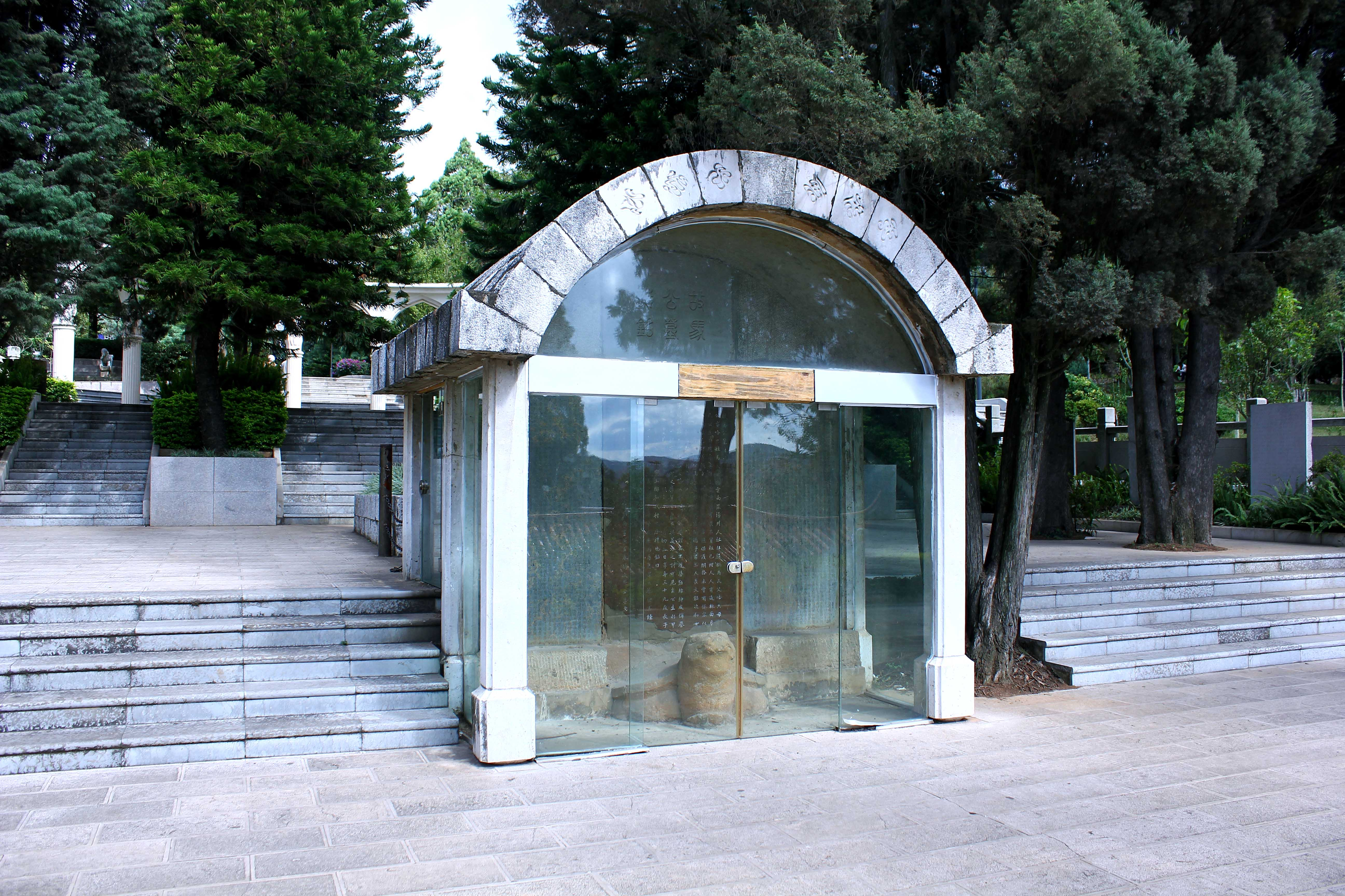 Tortoise-borne memorial stele of Ma Hajji (Zheng He) in Zheng He Park, Kunyang Town, Jinning County, Yunnan